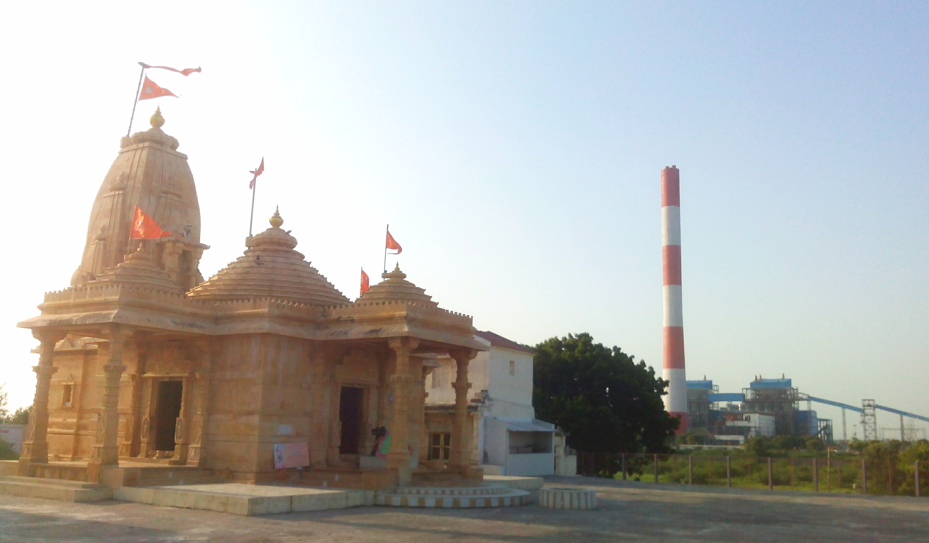 Chokhanda Mahadev Hindu Temple in Bhadreshwar, Kutch, Gujarat, India. OPG power plant in background.